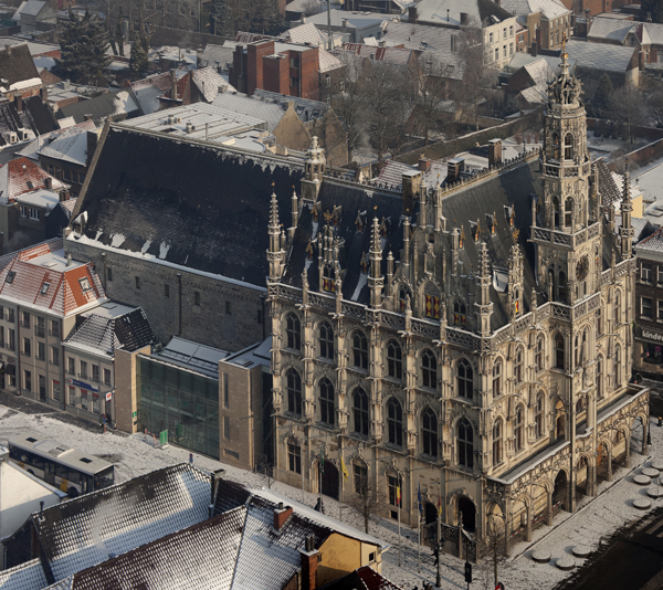 Stadhuis; Oudenaarde, Oost-Vlaanderen, Belgium; ; ref: PM_070232_B_Oudenaarde; ; Photographer: Paul M.R. Maeyaert; © Paul M.R. Maeyaert; ; Cultural heritage; Europeana; Europe/Belgium/Oudenaarde